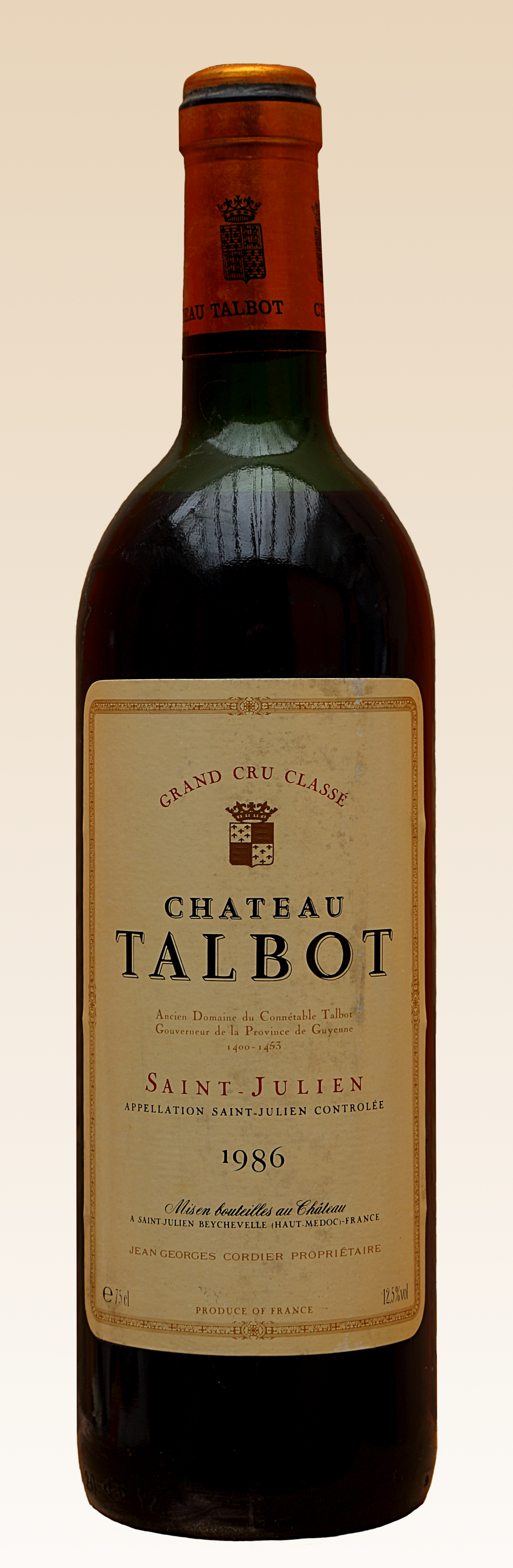 Bottle of Château Talbot 1986, picture taken in Belgium.